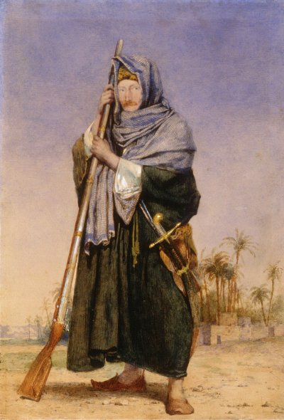 Portrait of Sir Thomas Phillips in Arab Dress, watercolour. Richard Dadd went on a tour in the Eastern Mediterranean with Phillips in 1842, shortly before his breakdown.